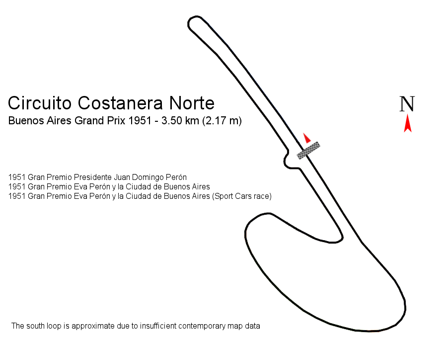 Circuito de la Costanera Norte 1951